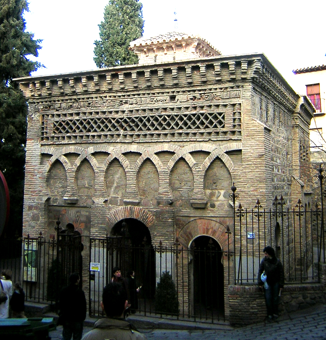 Facade with blind interlaced semi-circular arches, Cristo de la Luz, Toledo.